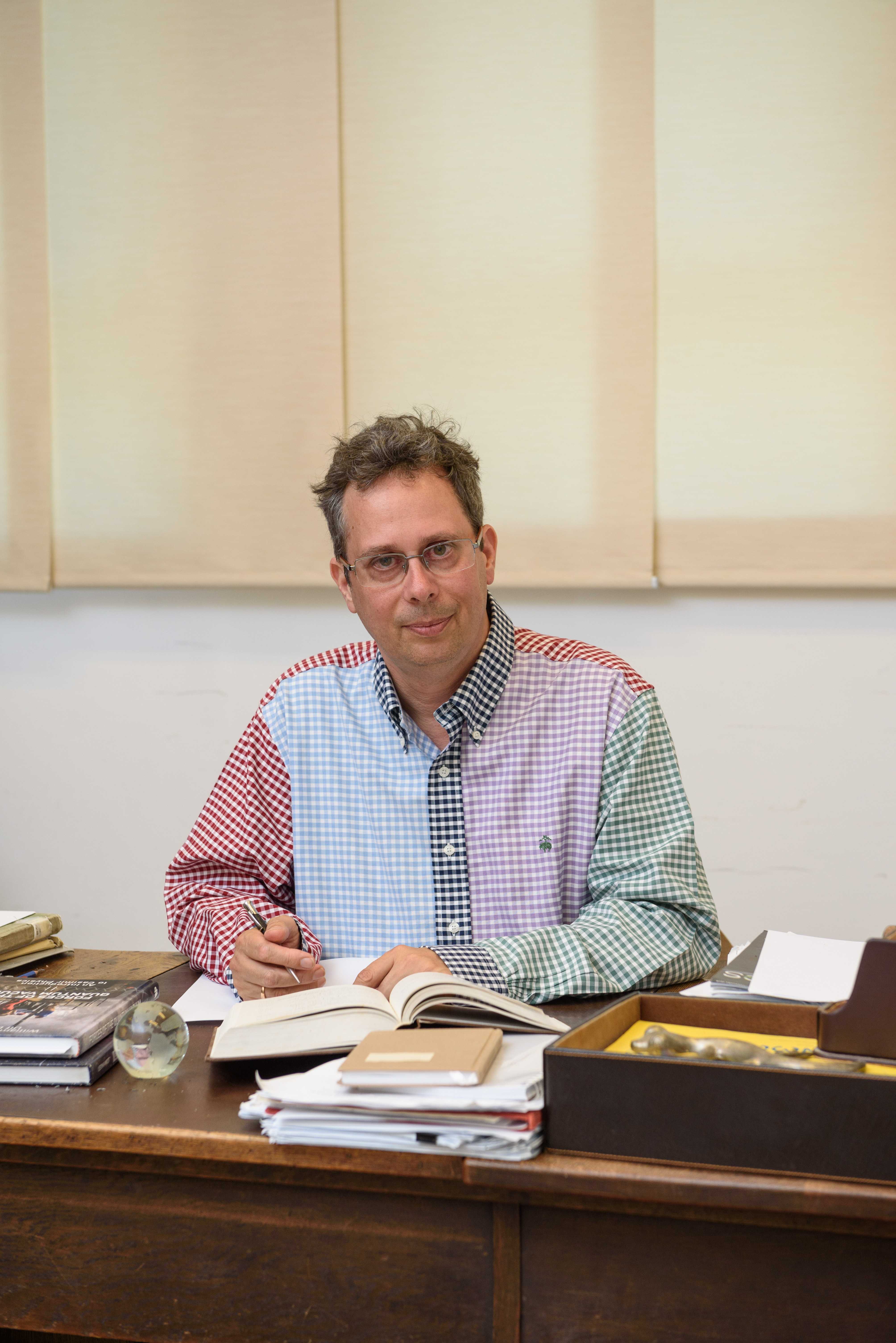 Photograph of Prof. Ulf Leonhardt in his office at the Weizmann Institute of Science